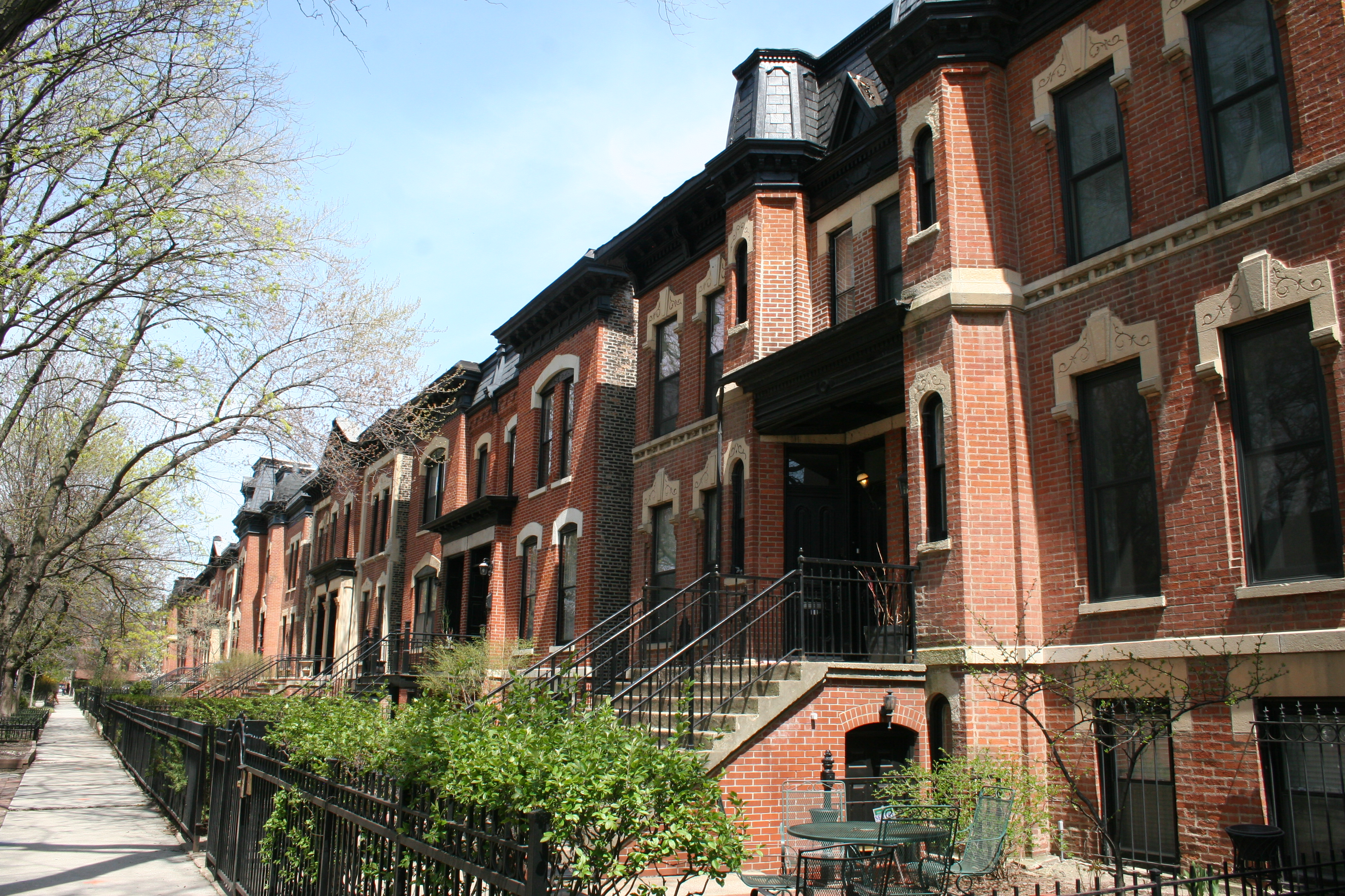 Bissell Street District in Sheffield Neighbors, Chicago, IL